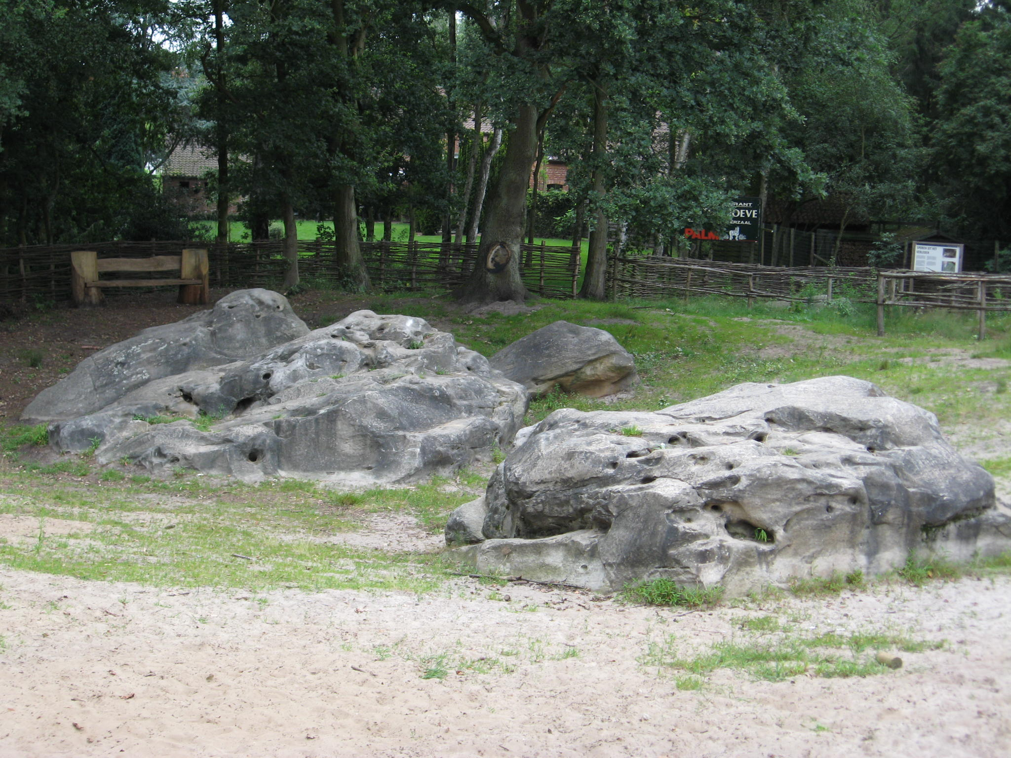 De Holsteen, a group of prehistoric stones to sharpen objects in Zonhoven, Limburg, Belgium